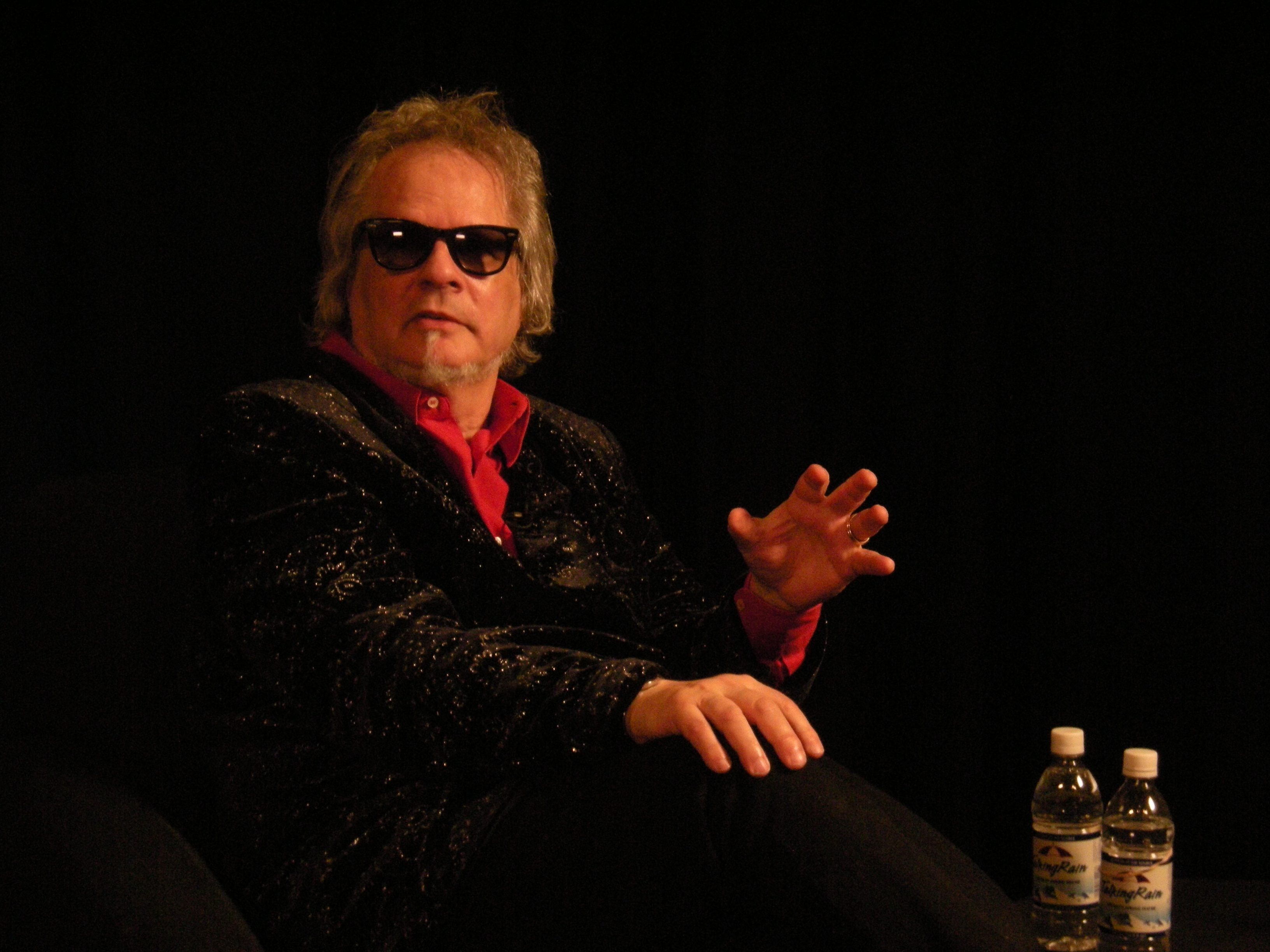 Al Kooper being interviewed as part of the "Sound + Vision" series at Experience Music Project, Seattle, Washington.